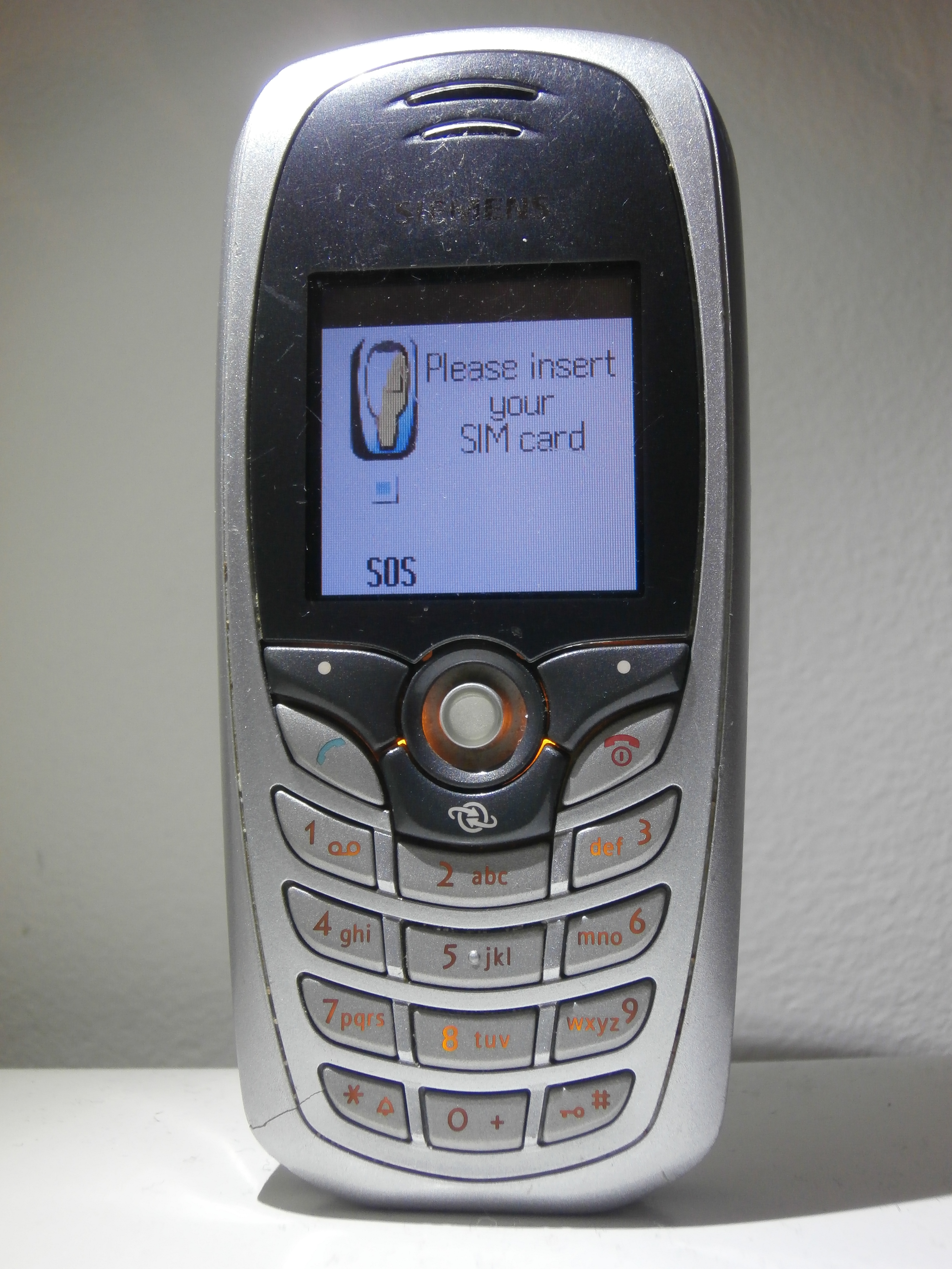 Front shot of a Siemens C72